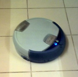 A Scooba robotic floor washer in its natural habitat. Photo taken by User:ImGz, cropped, histogram-stretched, and uploaded by myself.